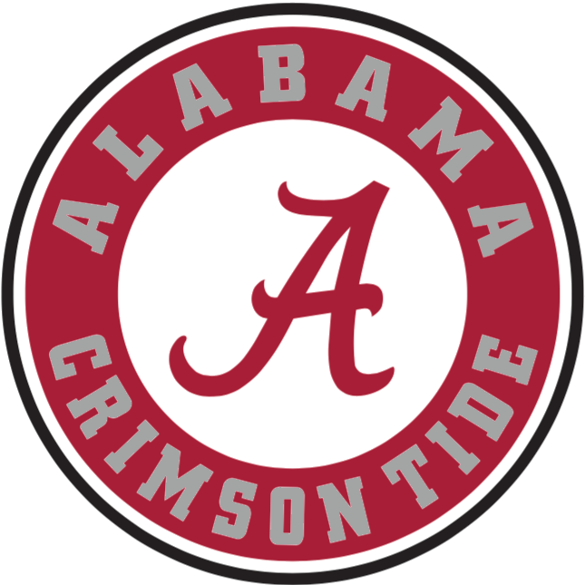 Alternate athletics logo for the University of Alabama.